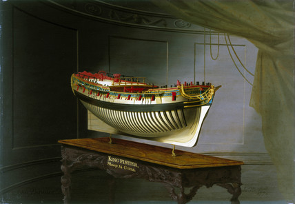 Prospective oil painting of the hull model of HM Sloop Kingfisher (1770) - starboard bow view